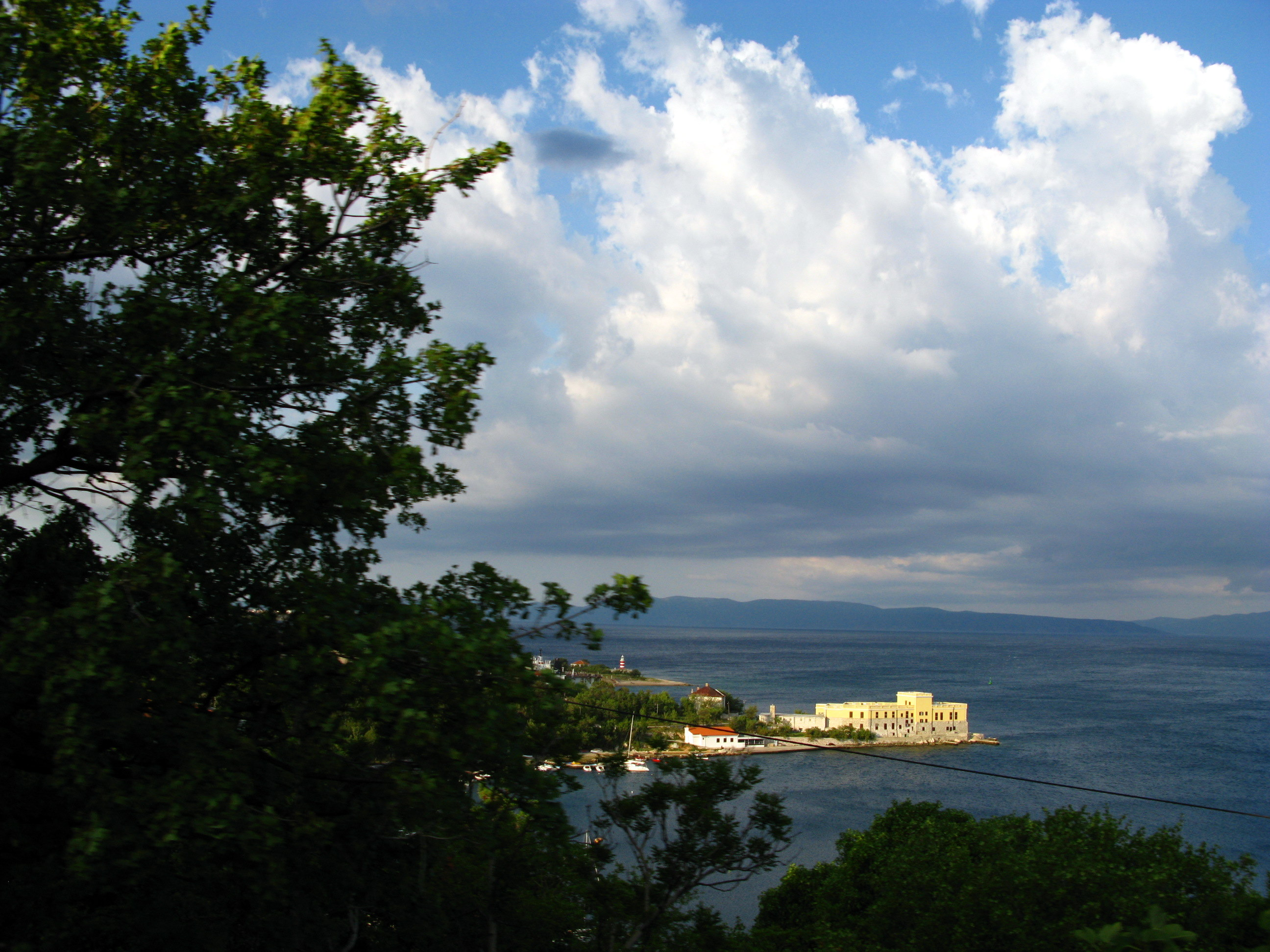 Harbour of Kraljevica / Croatia / Adriatic Sea.